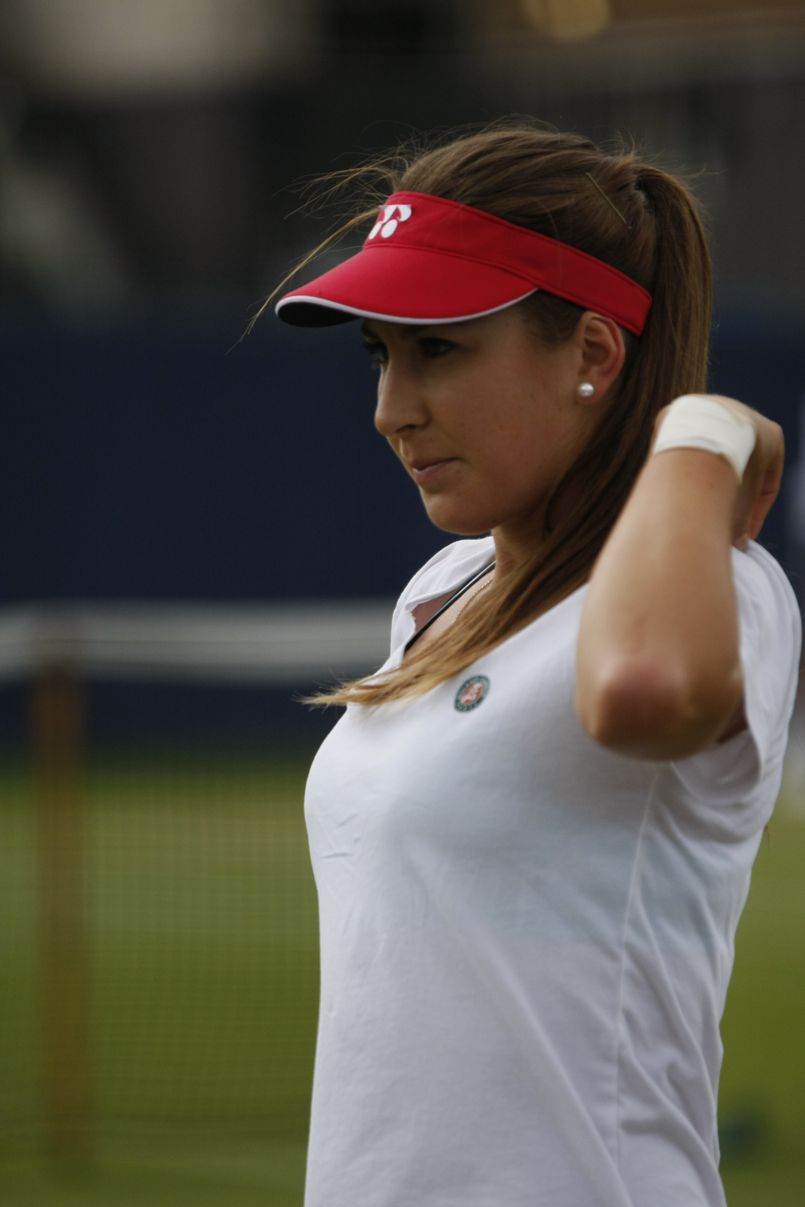 Aegon International Tennis, Devonshire Park, Eastbourne June 2015